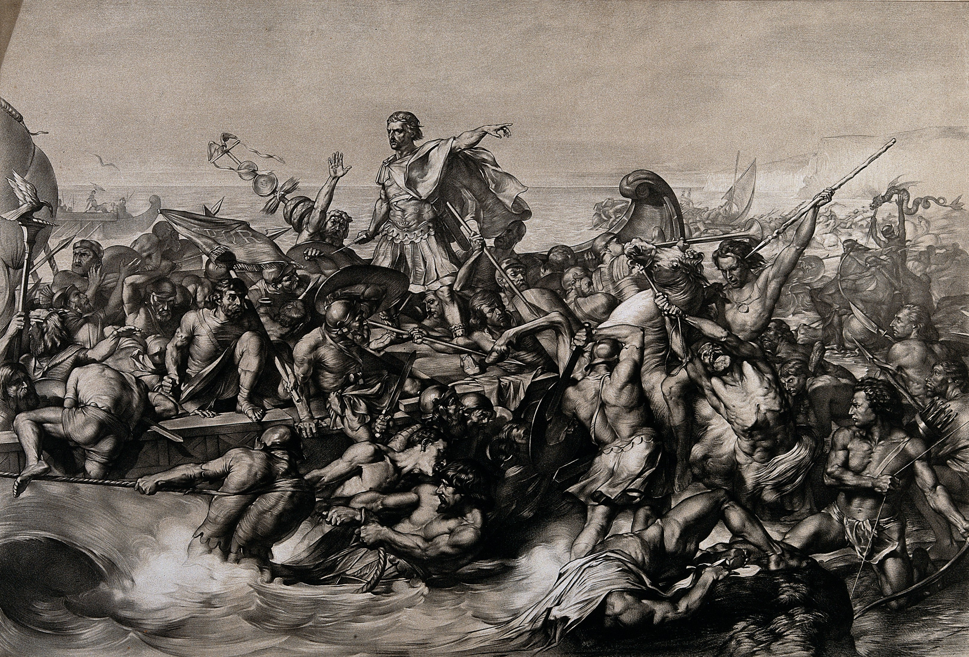 Caesar's first invasion of Britain: Caesar's boat is pulled to the shore while his soldiers fight the resisting indigenous warriors. Lithograph by W. Linnell after E. Armitage. Iconographic Collections Keywords: Roman; William Linnell; Edward Armitage